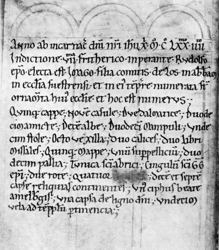 List of relics in the Susteren Gospel Book in the church treasury of the Abbey of Susteren, the Netherlands. The gospel is from the 11th or 12th c.; the list was added in 1174 when Imago of Loon, abbess of Susteren, donated the book to the abbey.